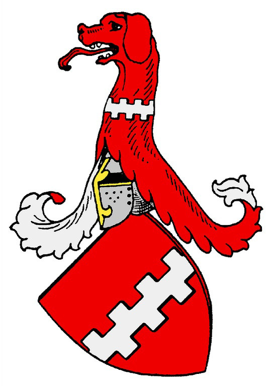 House Von Nesselrode